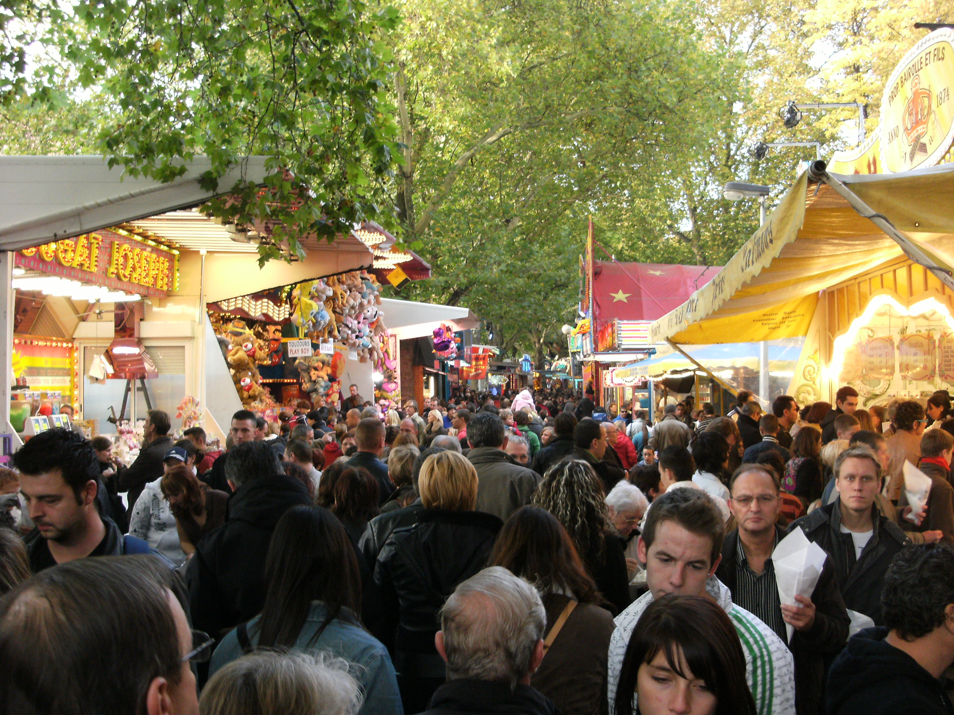 Liege Fair.